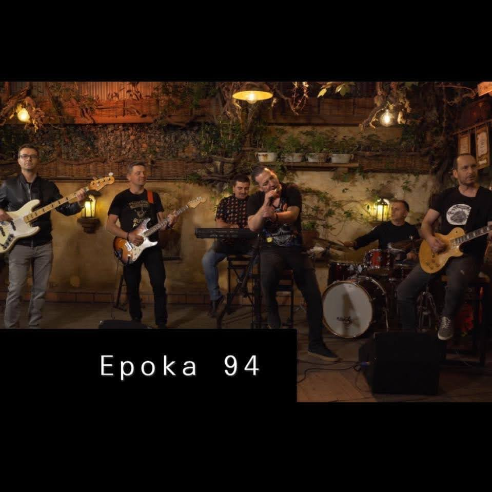 Epoka 94 rock band